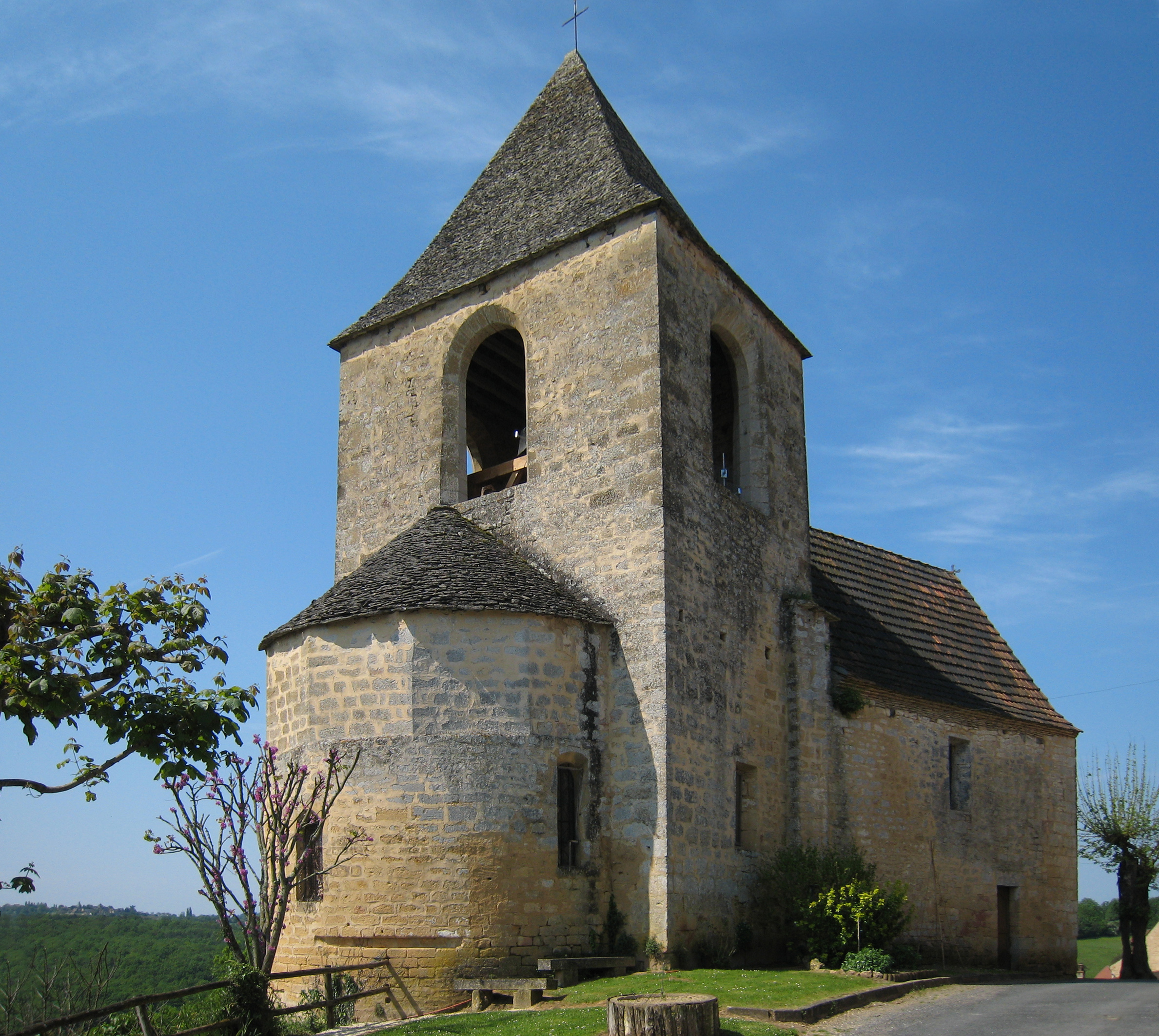 Church of the village of Tamniès, located in the Département of Dordogne/France Object location44° 57′ 53.9″ N, 1° 08′ 54.3″ E